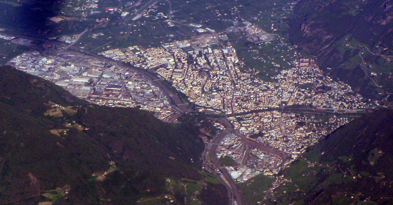 Aerial view of Bolzano, South Tyrol, Italy.